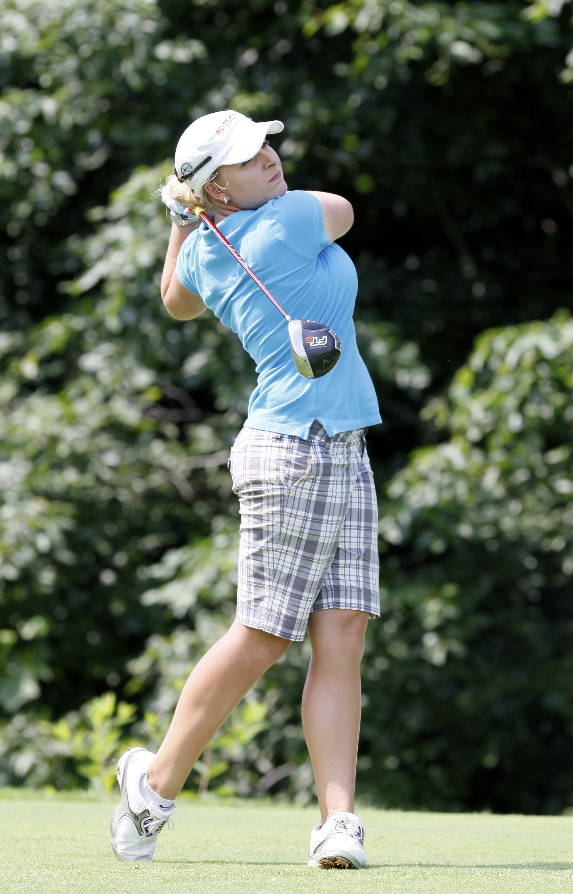 HAVRE DE GRACE, MD - JUNE 10: Sarah Kemp (AUS) during practice round before 2009 LPGA Championship held at Bulle Rock Golf Course, on June 10, 2009 in Havre de Grace, Maryland. (Photo by Keith Allison)